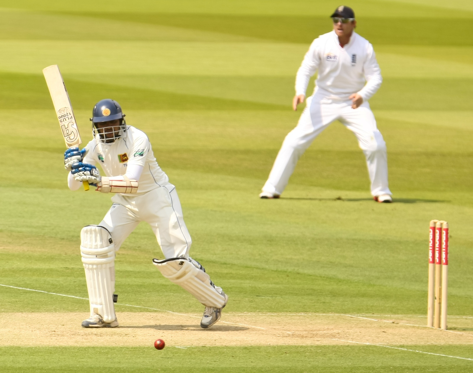 Tillakaratne Dilshan batting against England during the second Test at Lord's. He scored 193 runs from 253 balls. Scorecard.